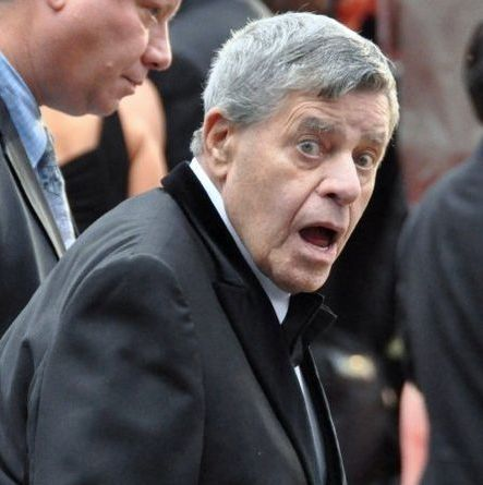 Jerry Lewis at the 2009 Cannes Film Festival